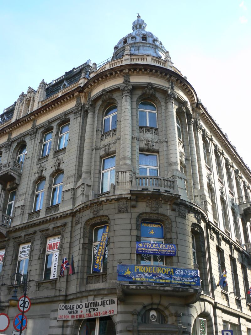 Building of Wilhelm Landaue Bank